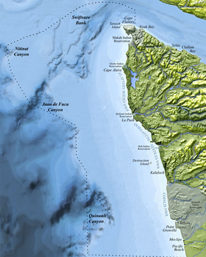 Map of Juan de Fuca Canyon, slightly sliced from the original.